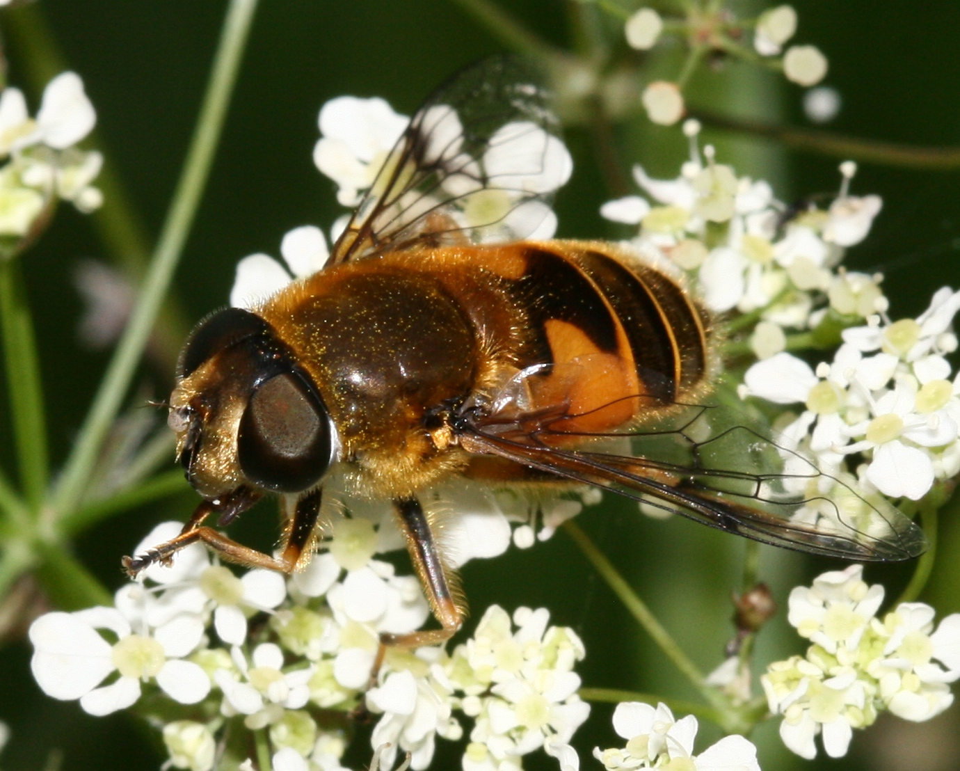 a female Eristalis horticola at West Linton, Peeblesshire, Scotland